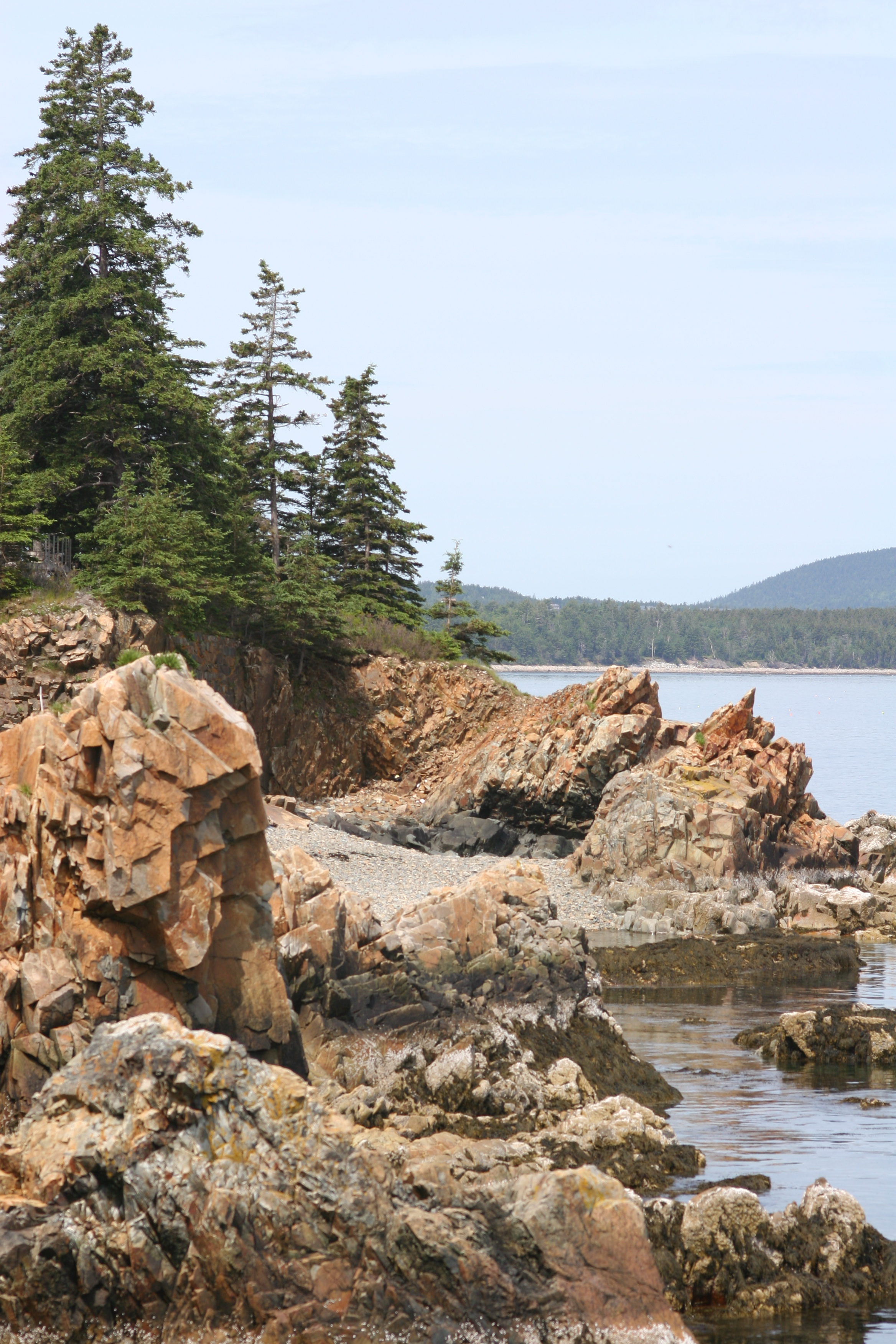 Coast of Sutton Island, ME. Taken June 2005, by me, User Debivort.